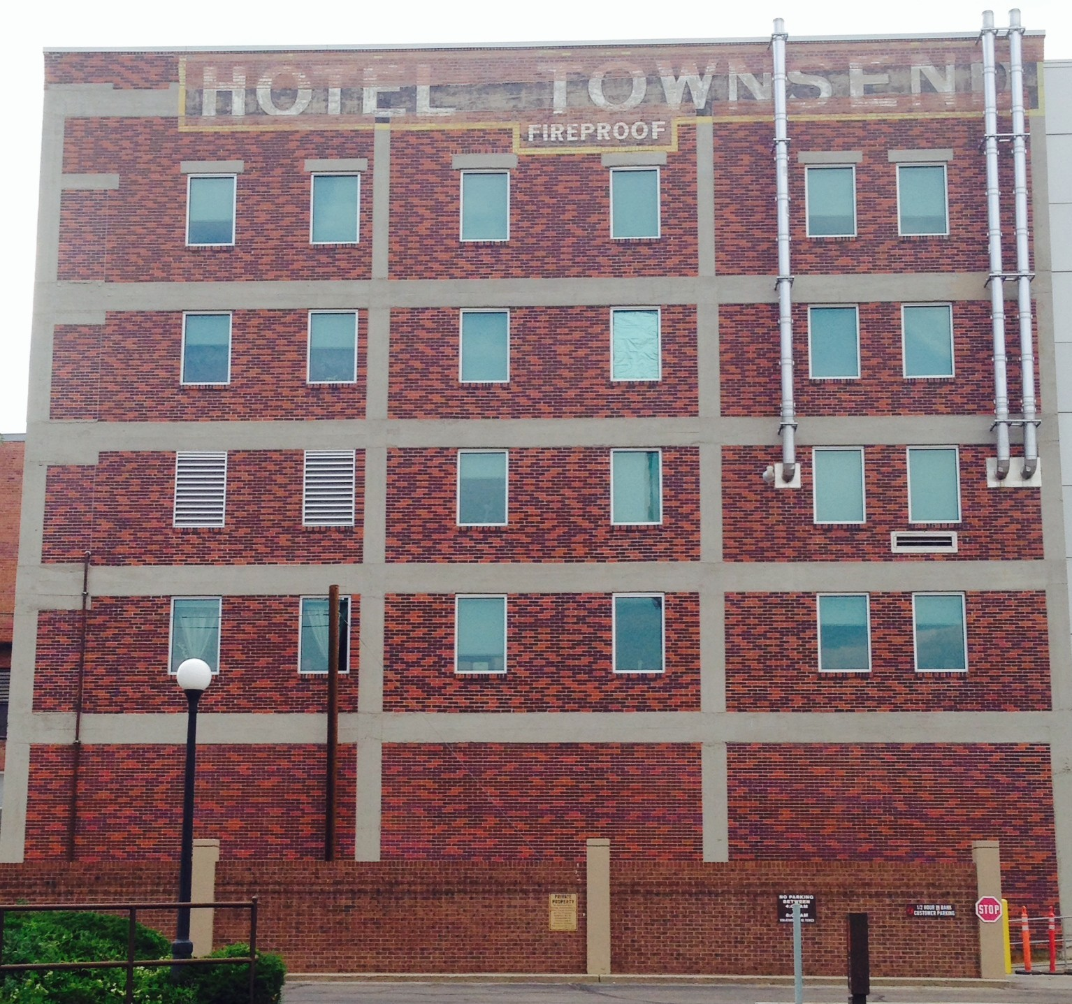 Rear (east) side of the Townsend Hotel, 115 N. Centre St. Casper